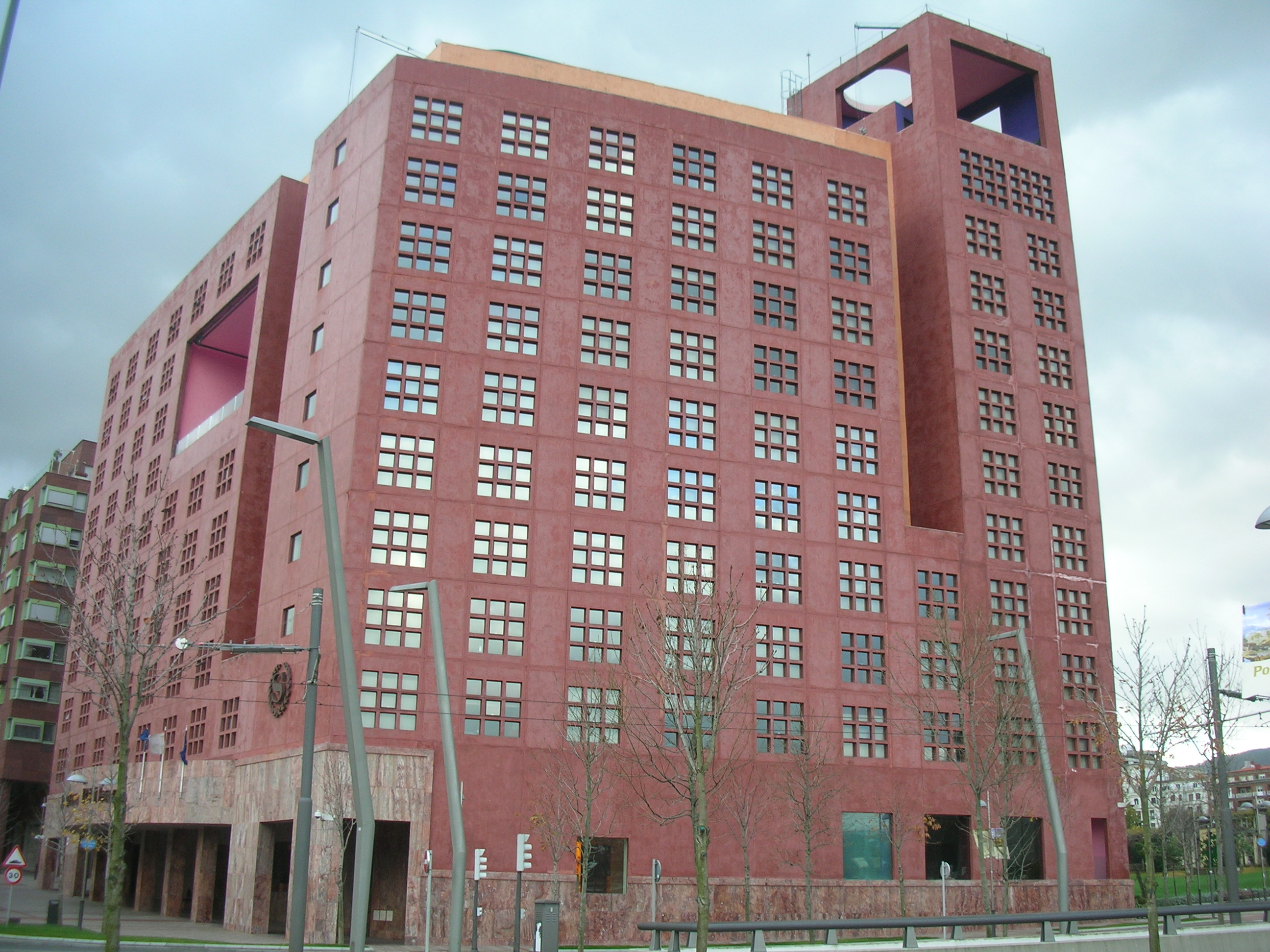 Sheraton Abandoibarra, Bilbao, Basque Country, Spain. Architect: Ricardo Legorreta, 2005